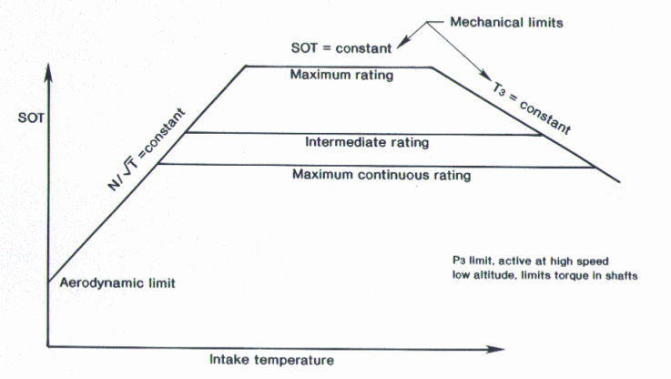 Typical Military Engine Rating System. SOT (turbine entry temperature) vs. intake temperature.